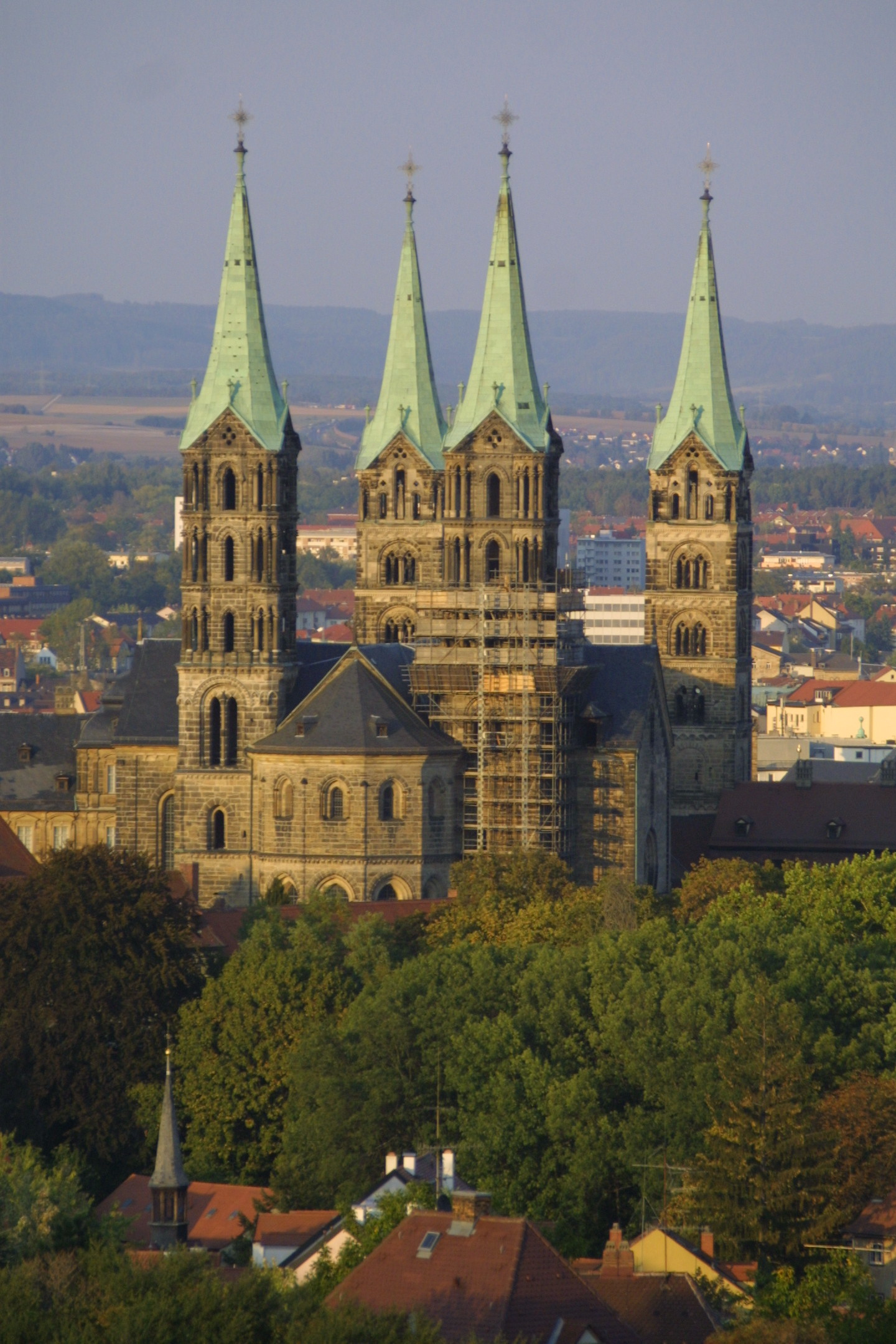 Bamberg Cathedral.